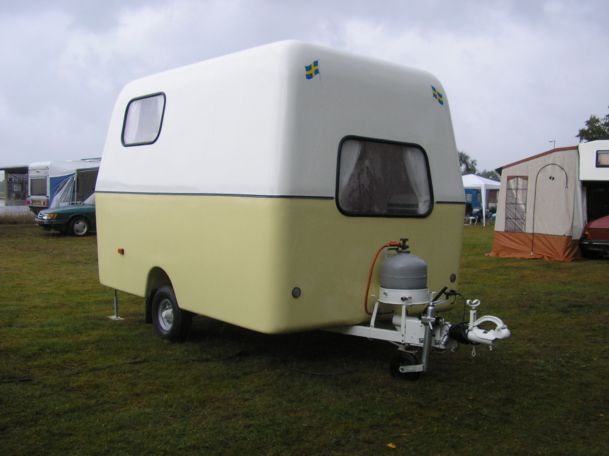 A SAABO camper trailer. Photographed at the International SAAB Club Meeting 2006.